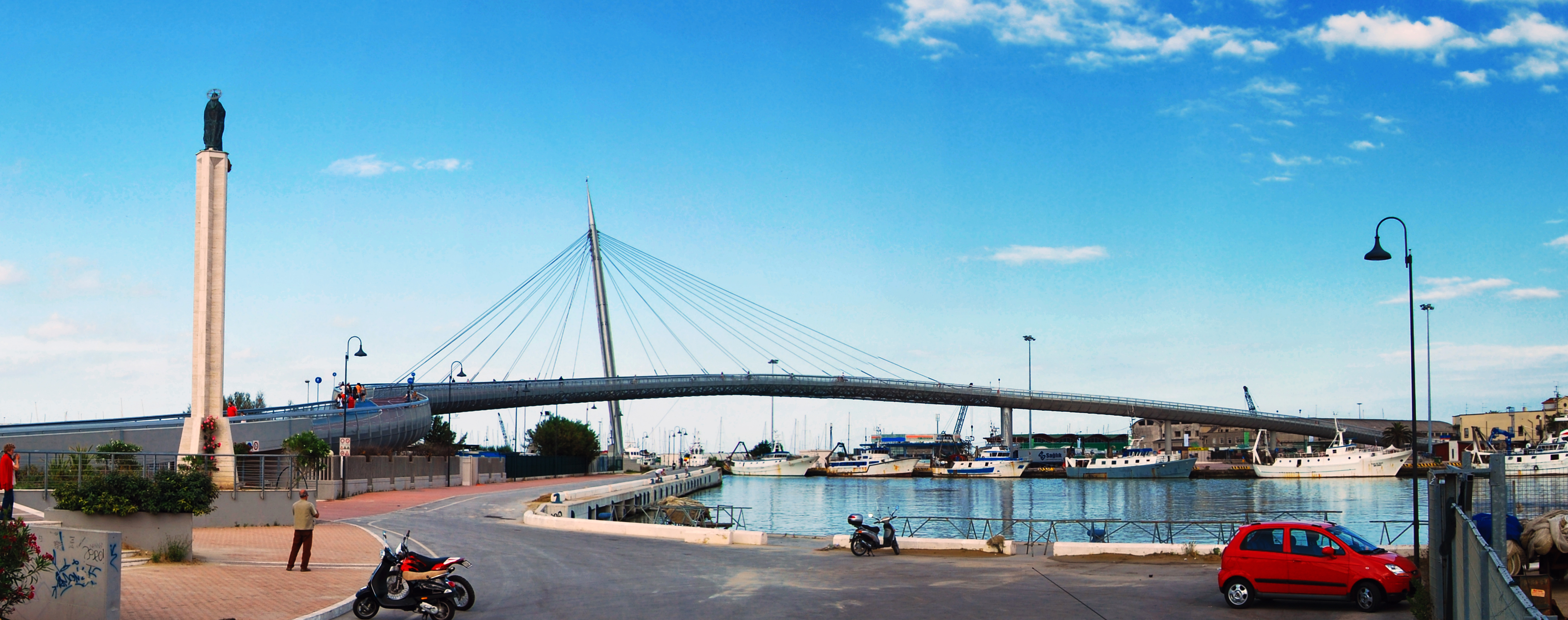 The Ponte del Mare (Bridge of the Sea) located in Pescara, by architect Walter Pichler.